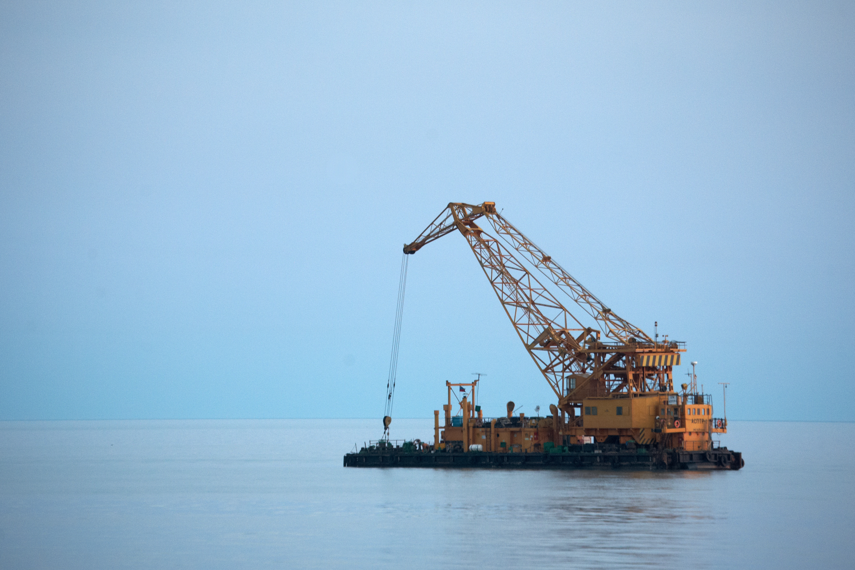 Special purpose ship neat Sochi.